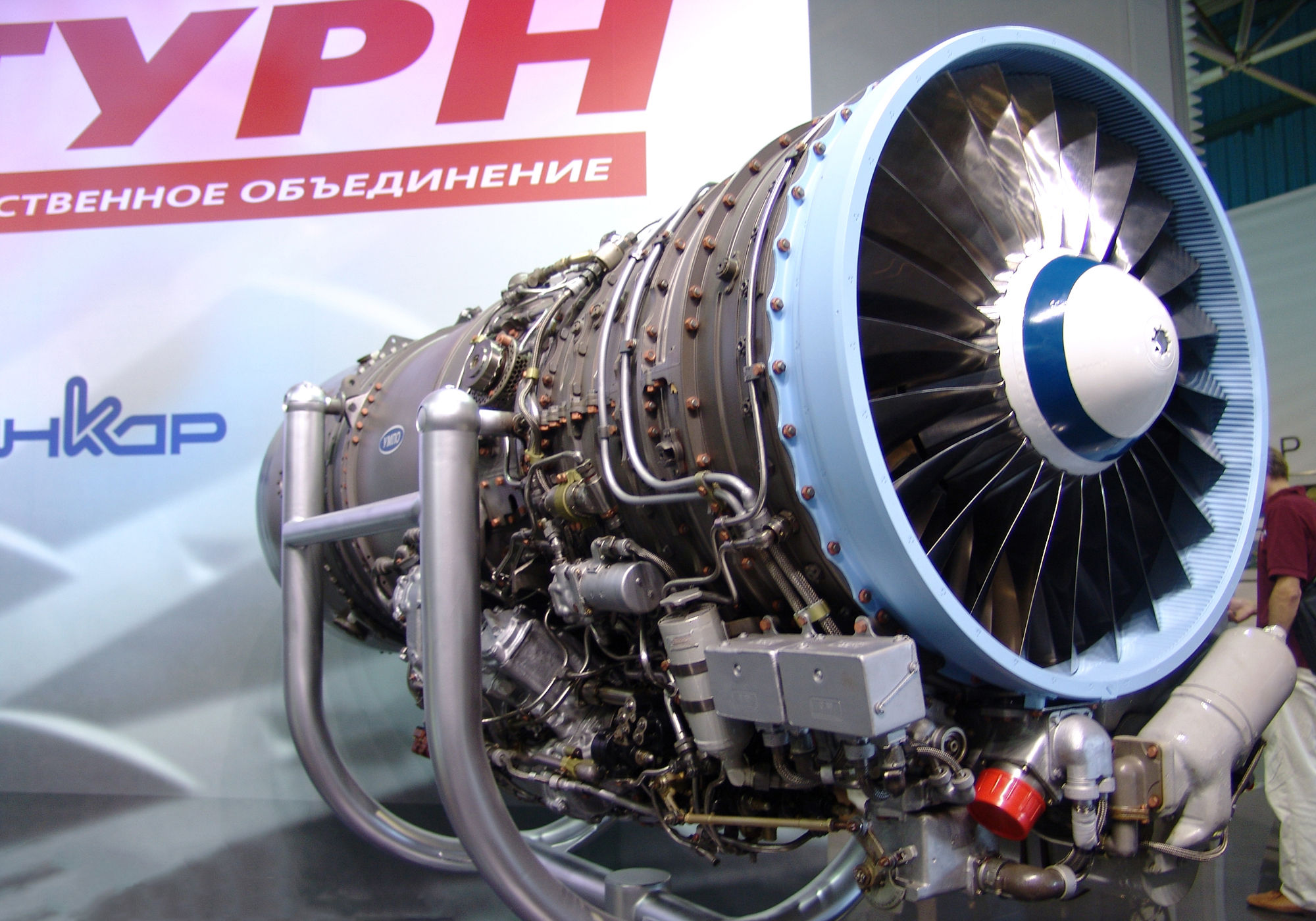 R-195 at MAKS-2007